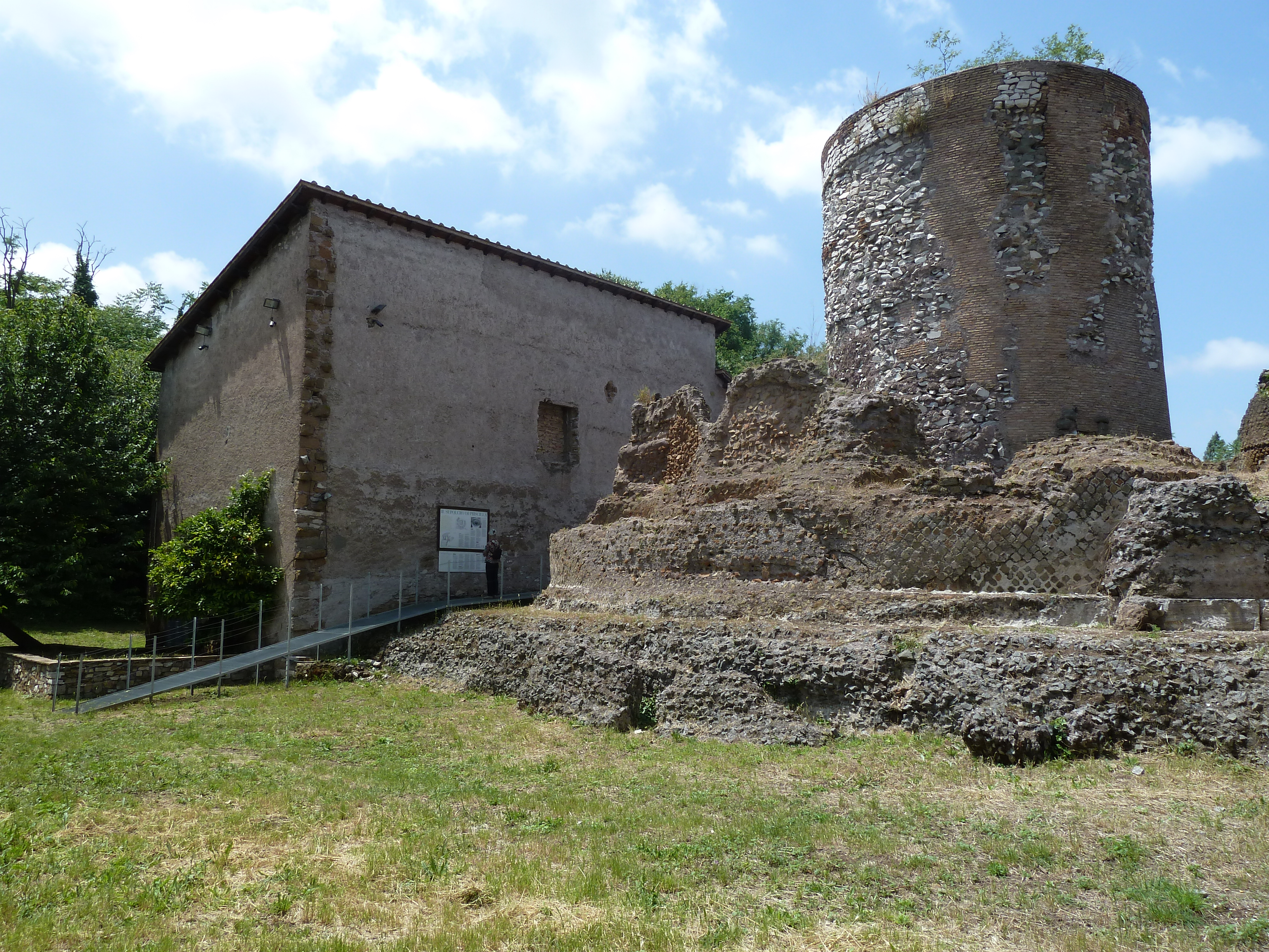 Sepolcro Priscilla Appia Antica [1]